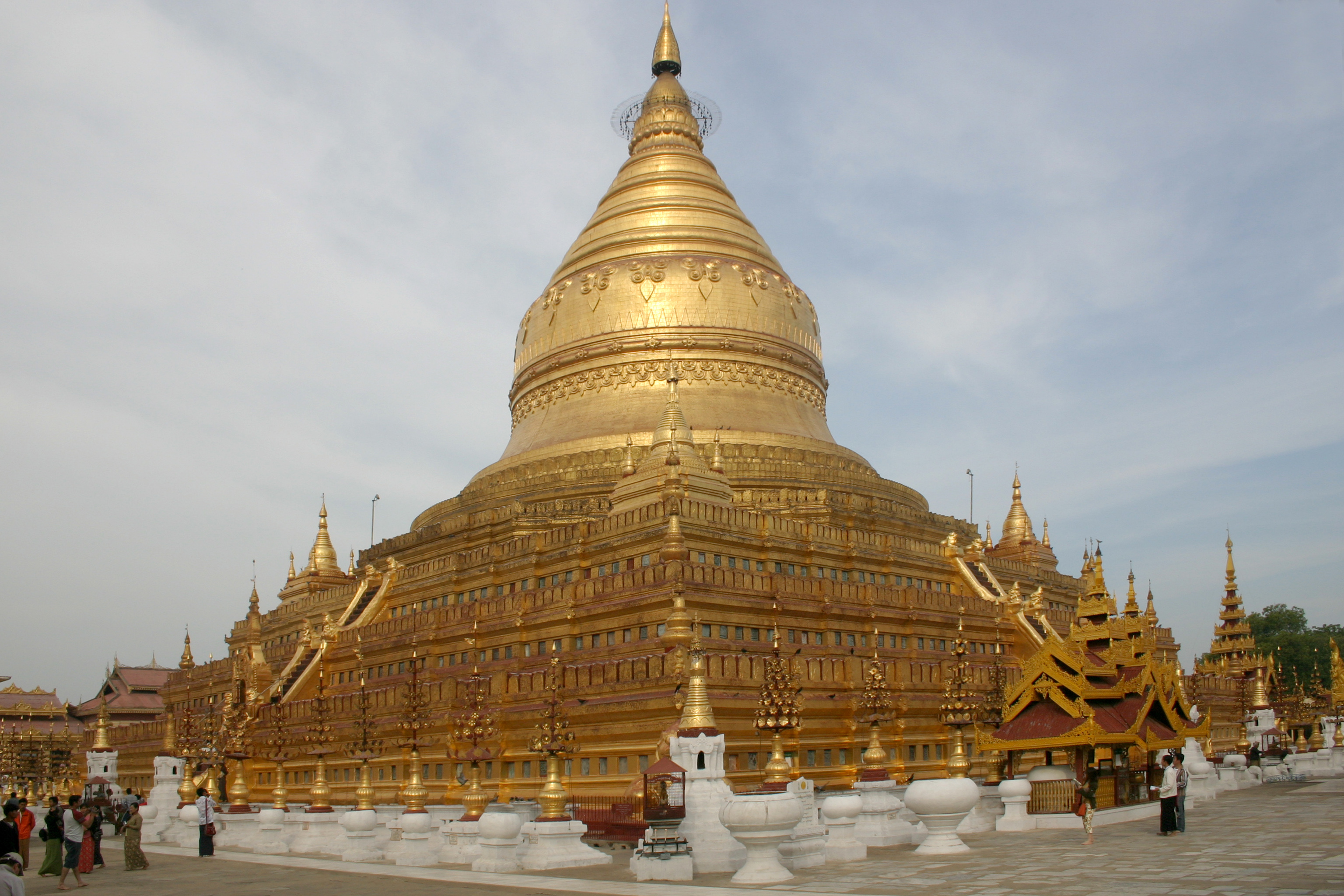 Shwezigon pagoda, Bagan, Myanmar.